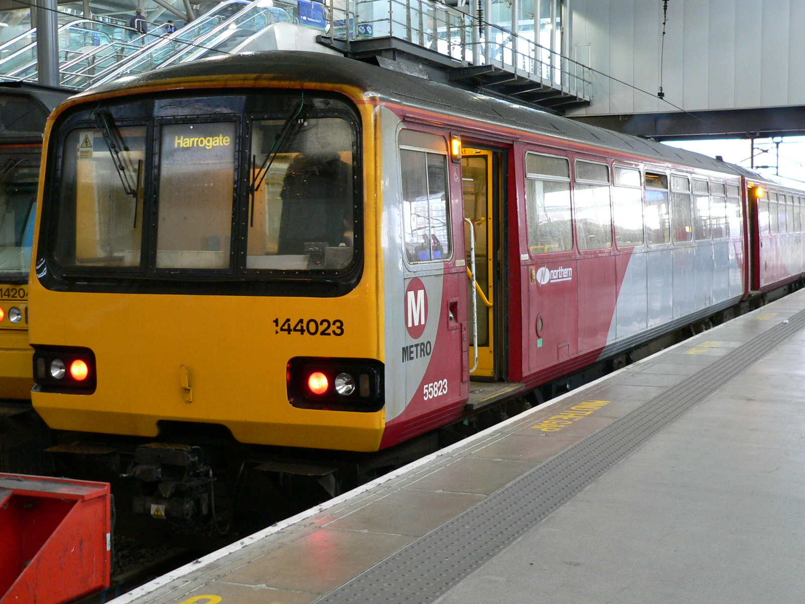 A Northern Rail Class 144 DMU railbus in West Yorkshire Metro livery, at platform 5 of Leeds City railway station.